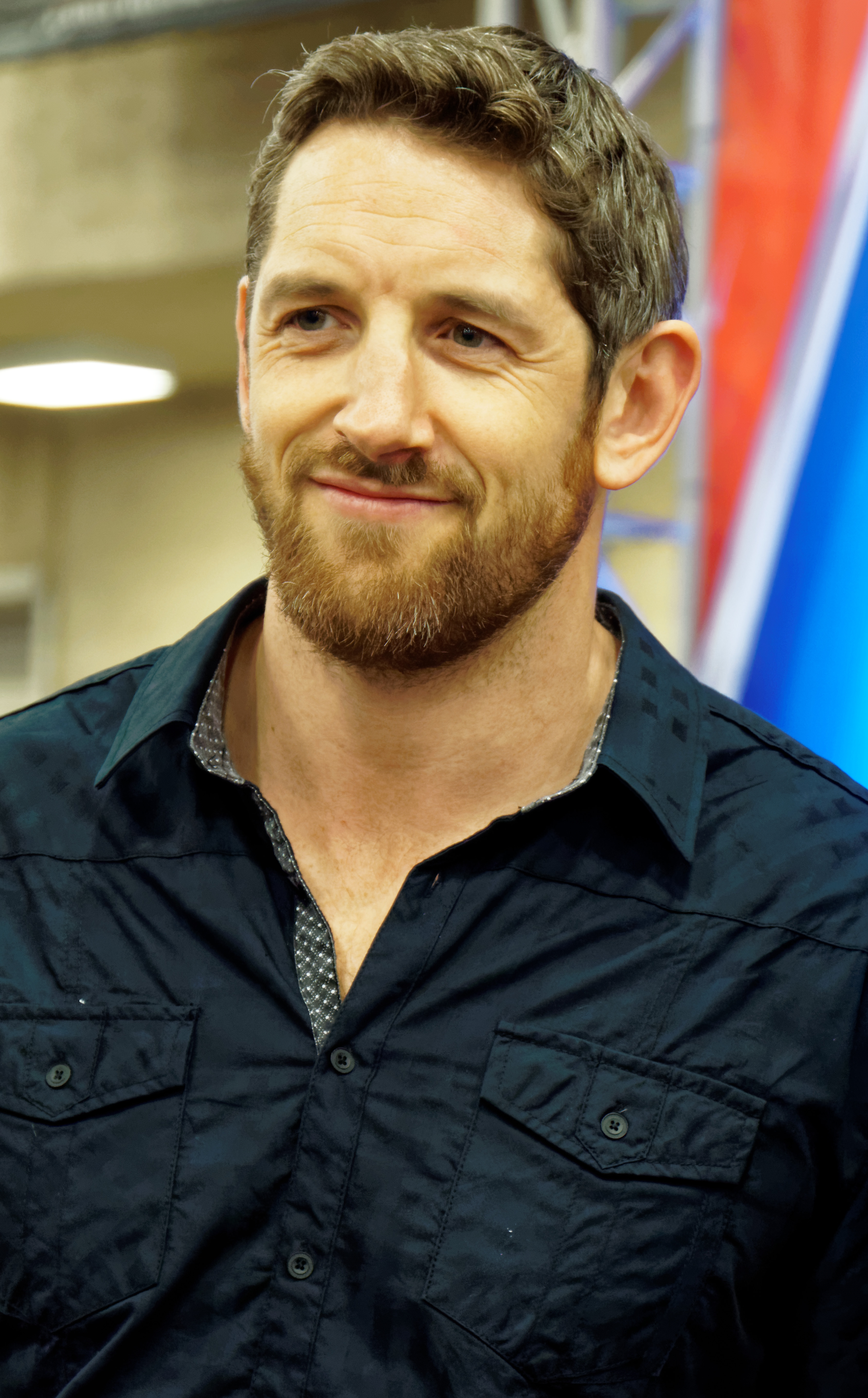 Wade Barrett at WrestleMania 32 Axxess in March 2016.